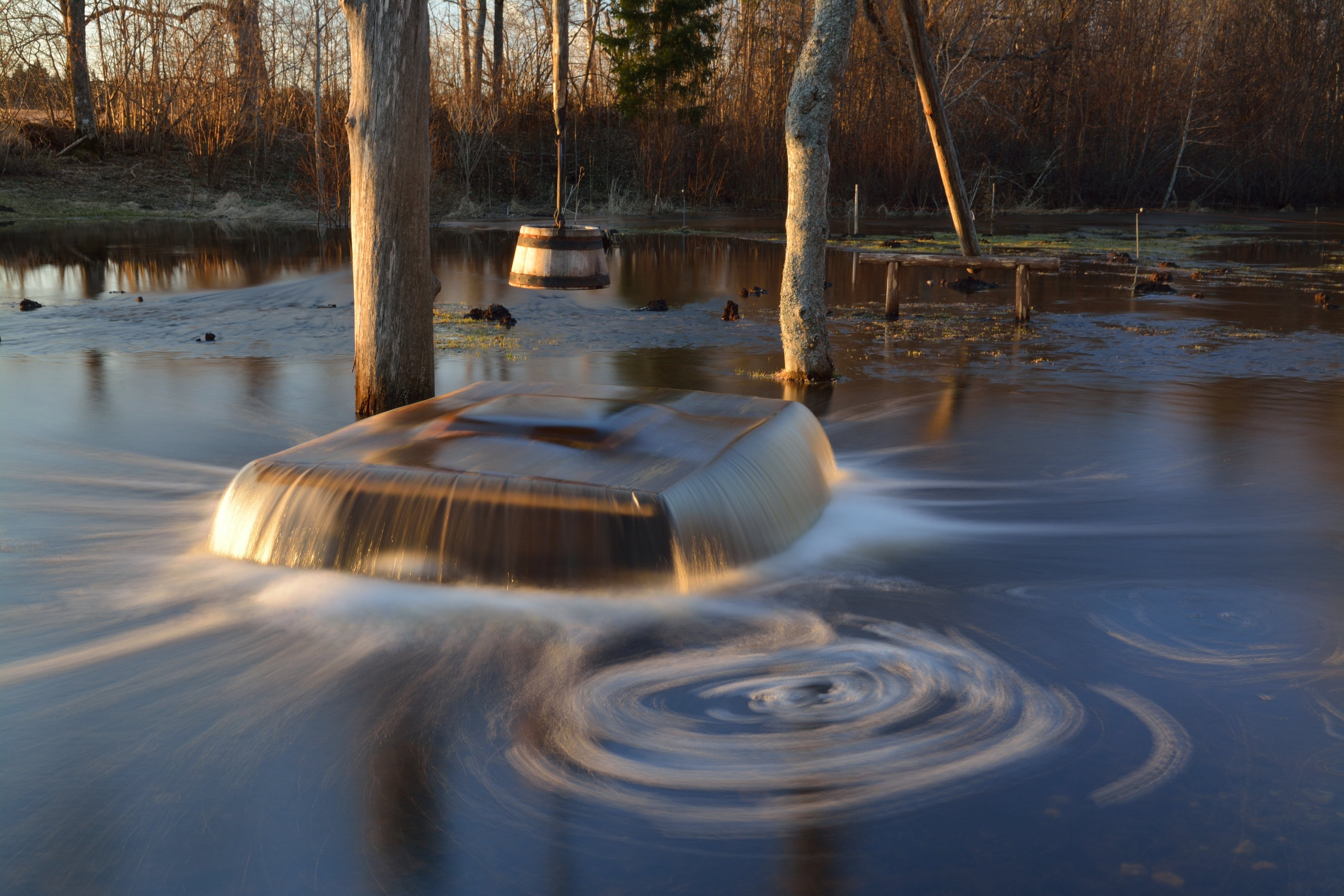 Witch's Well (karst spring) in Tuhala (Estonia) is "boiling over". Water erupts for only a short period of time and not every year. It starts to come out from the well when excess water from the Mahtra swamp fills up the underground river and the overflowing river water seeks an escape through the well. According to local legend, the well boils over when the witches of Tuhala make a sauna below the ground and beat each other with birch branches, causing a commotion on the surface.